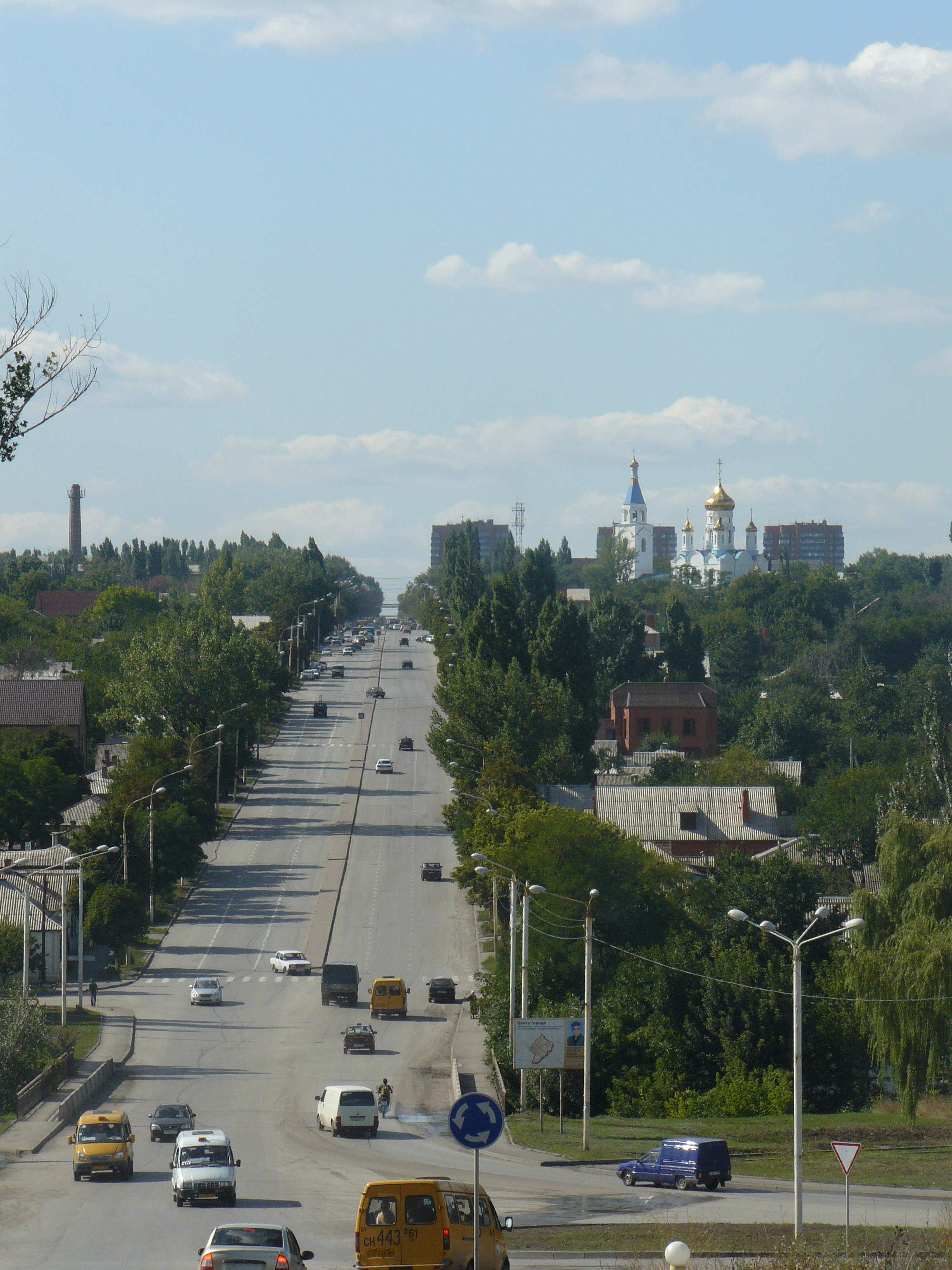 Sovetskaya street, Shakhty, Russia